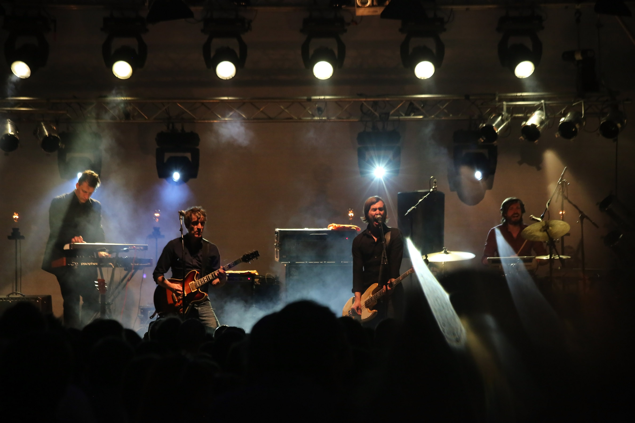 Austrian band Naked Lunch, concert at the opening of the summer season 2013 at Museumsquartier in Vienna, Austria.